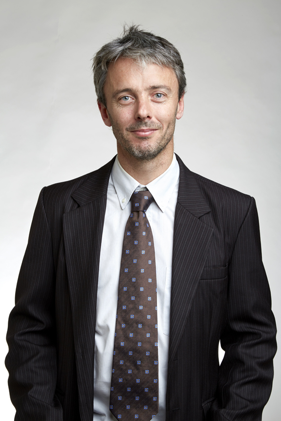 Geordie Williamson is an Australian Professor of Mathematics at the University of Sydney Attribution: The Royal Society